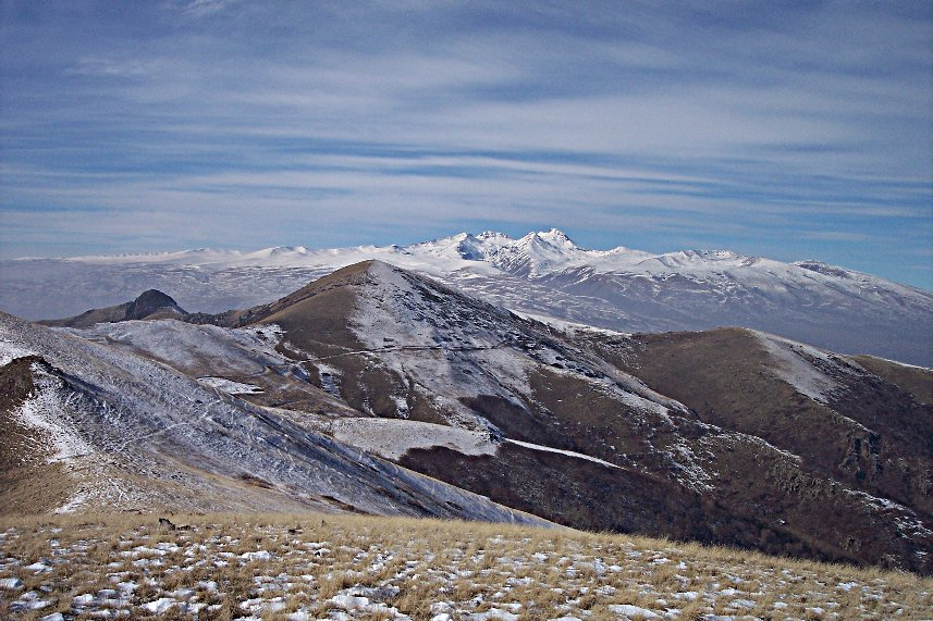 Aragats_in_snow